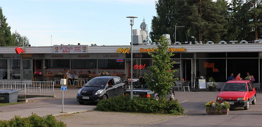 Kaivoksela shopping centre, Vantaa, Finland. Partial view of the upper yard. Please remember mention the author if you use the photo.